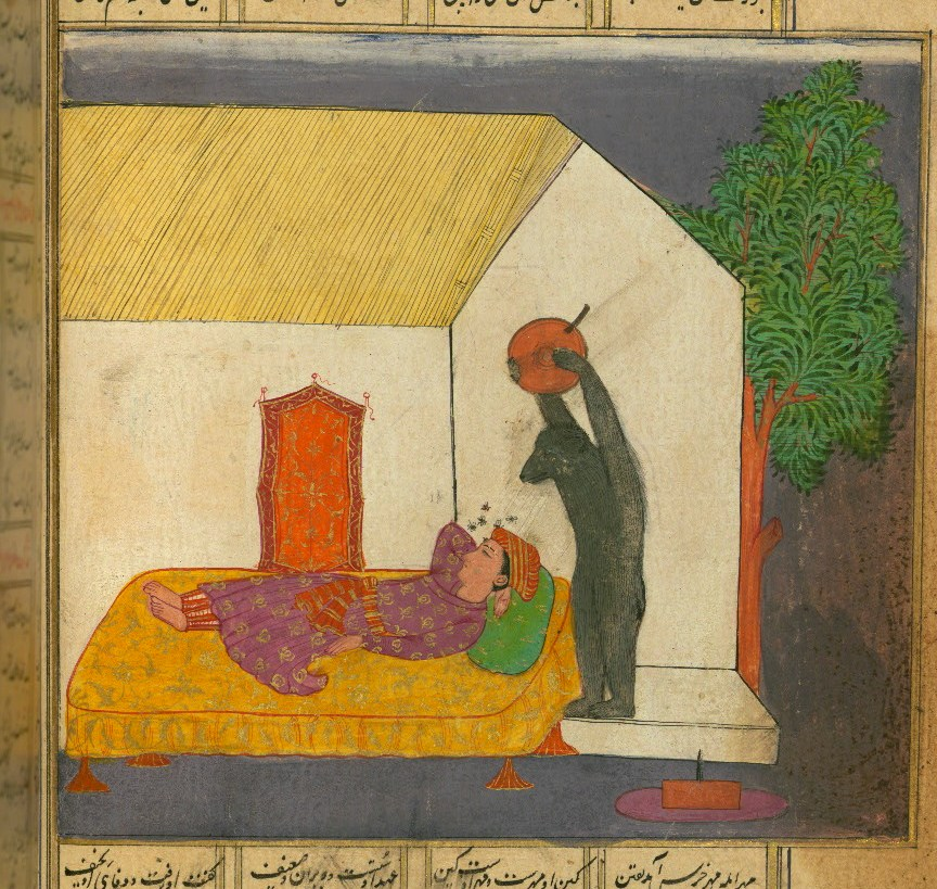 "A kind man, seeing a serpent overcoming a bear, went to the bear's assistance, and delivered him from the serpent. The bear was so sensible of the kindness the man had done him that he followed him about wherever he went, and became his faithful slave, guarding him from everything that might annoy him. One day the man was lying asleep, and the bear, according to his custom, was sitting by him and driving off the flies. The flies became so persistent in their annoyances that the bear lost patience, and seizing the largest stone he could find, dashed it at them in order to crush them utterly; but unfortunately the flies escaped, and the stone lighted upon the sleeper's face and crushed it." story 8